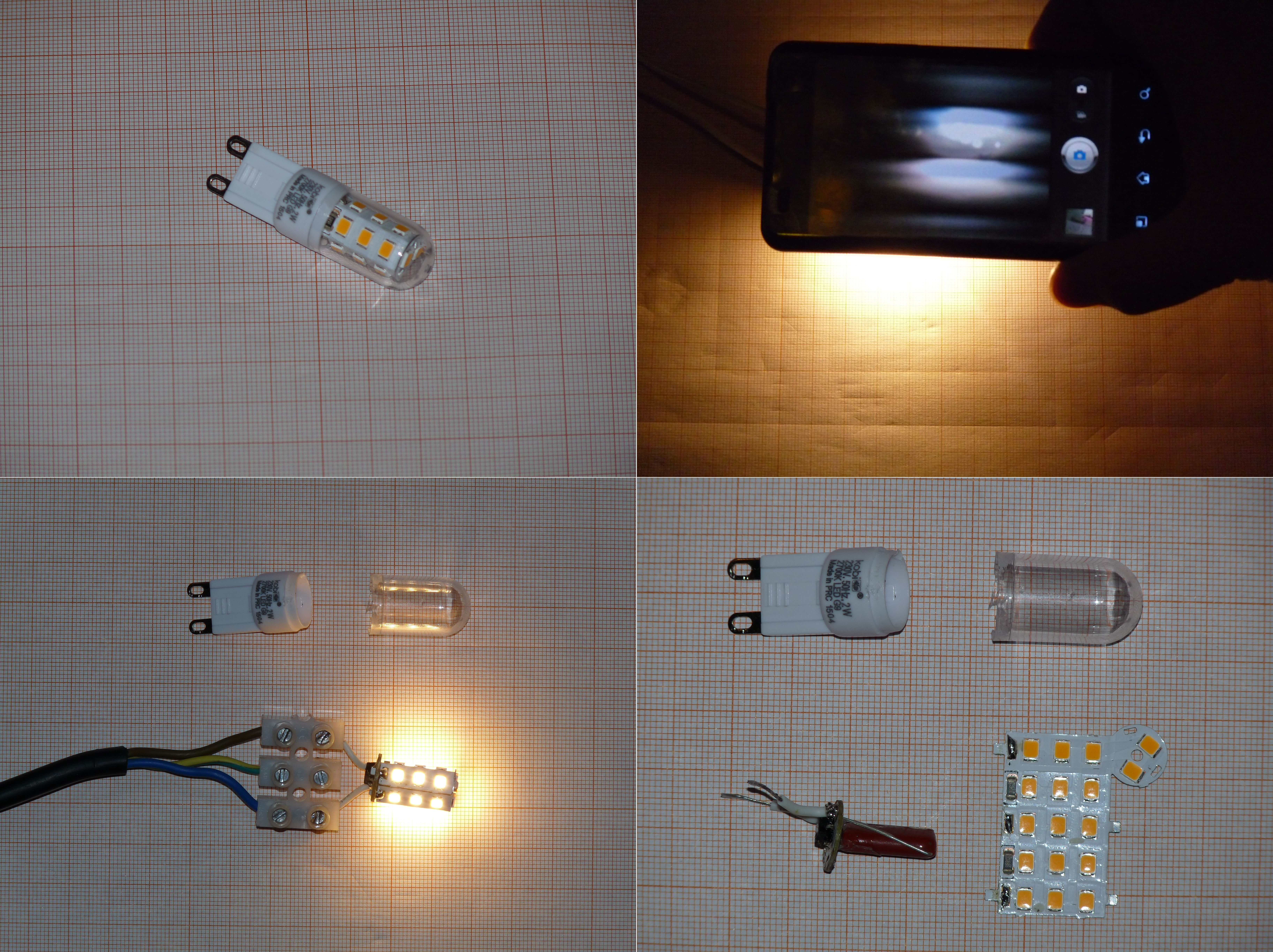 LED light bulb with G9 base Integrated electronic circuit: Capacitive power supply